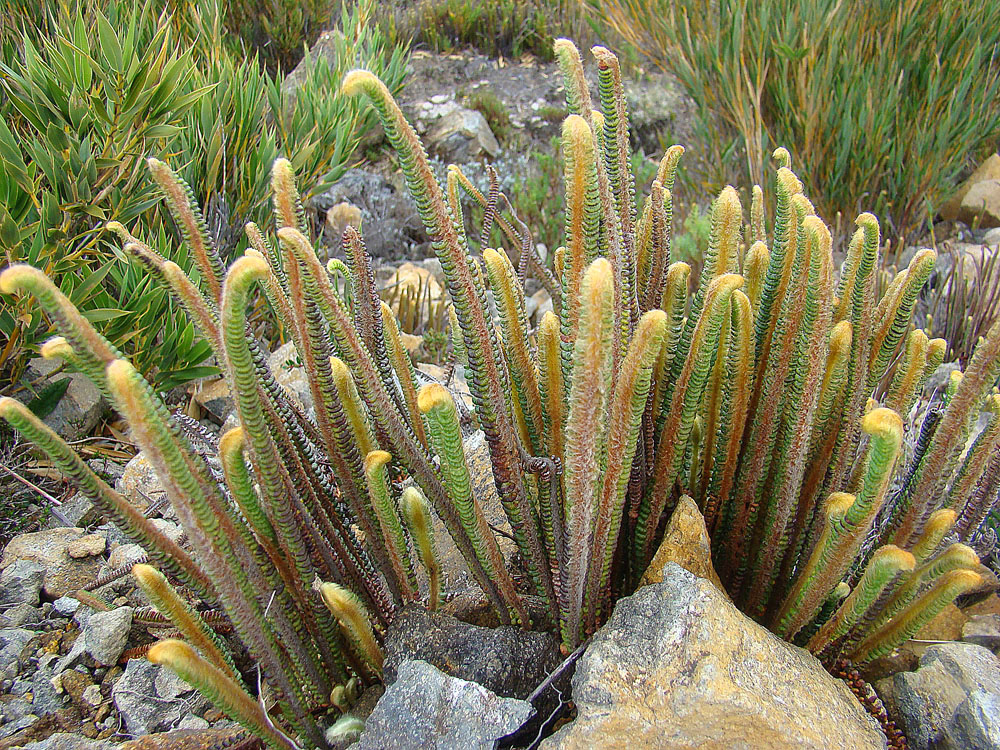 Found in the mountains of the western Neotropics. Photo from Cerro de la Muerte, Costa Rica, where it is known as Helecho Zipper. In context at